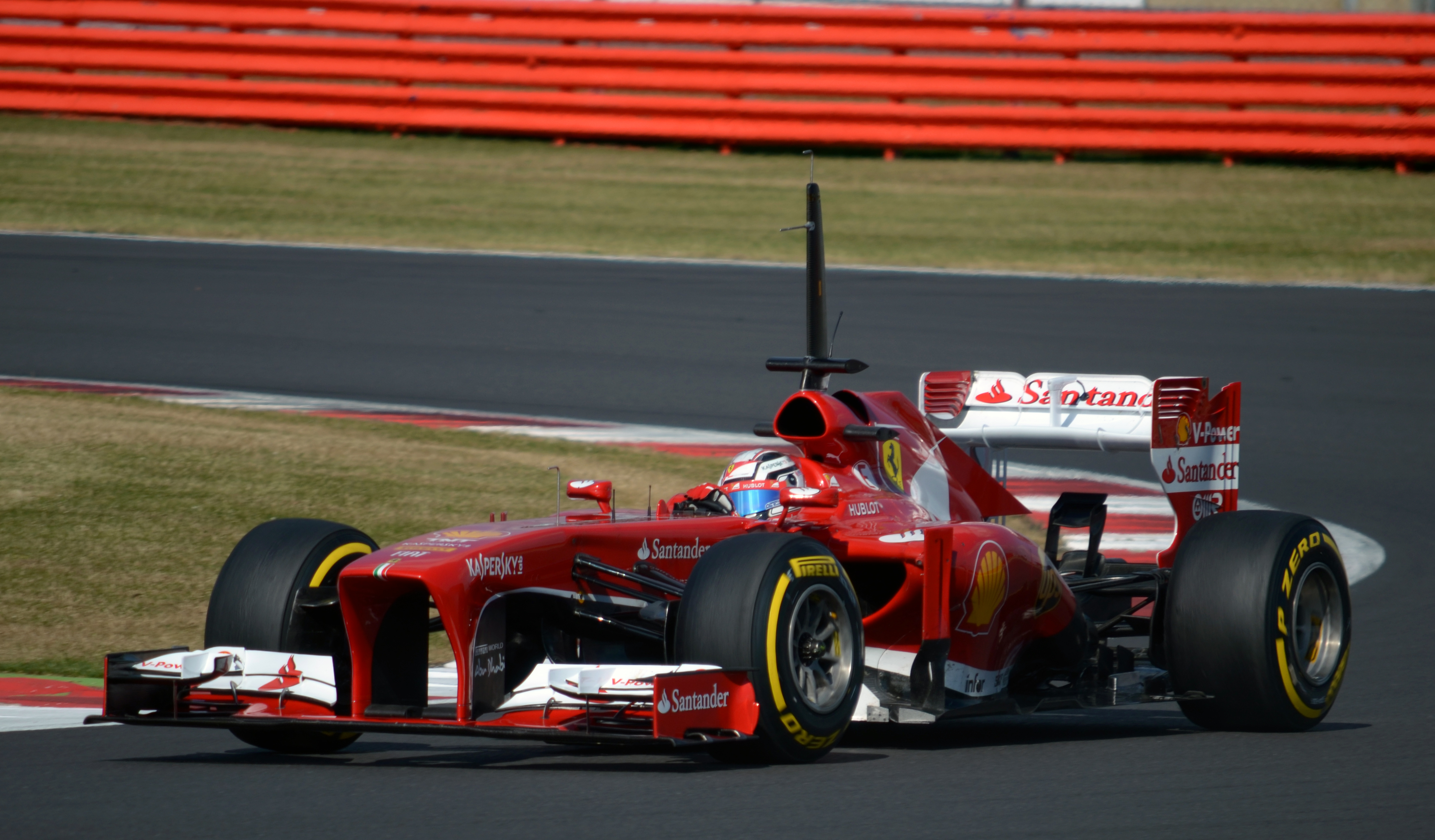 Davide Rigon driving the Ferrari F138 at the Young Drivers' Test at Silverstone.